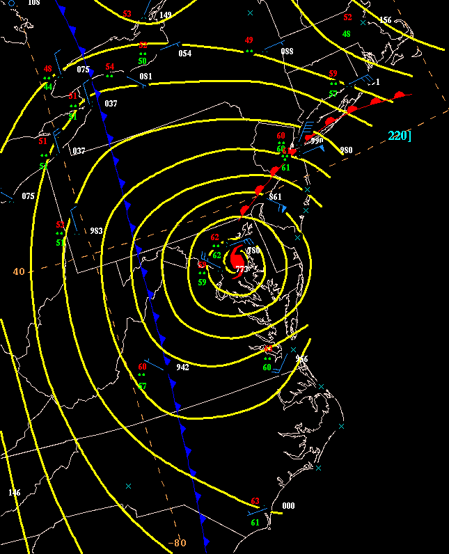 The Gale of '78, Storm 9 of the 1878 Hurricane Season